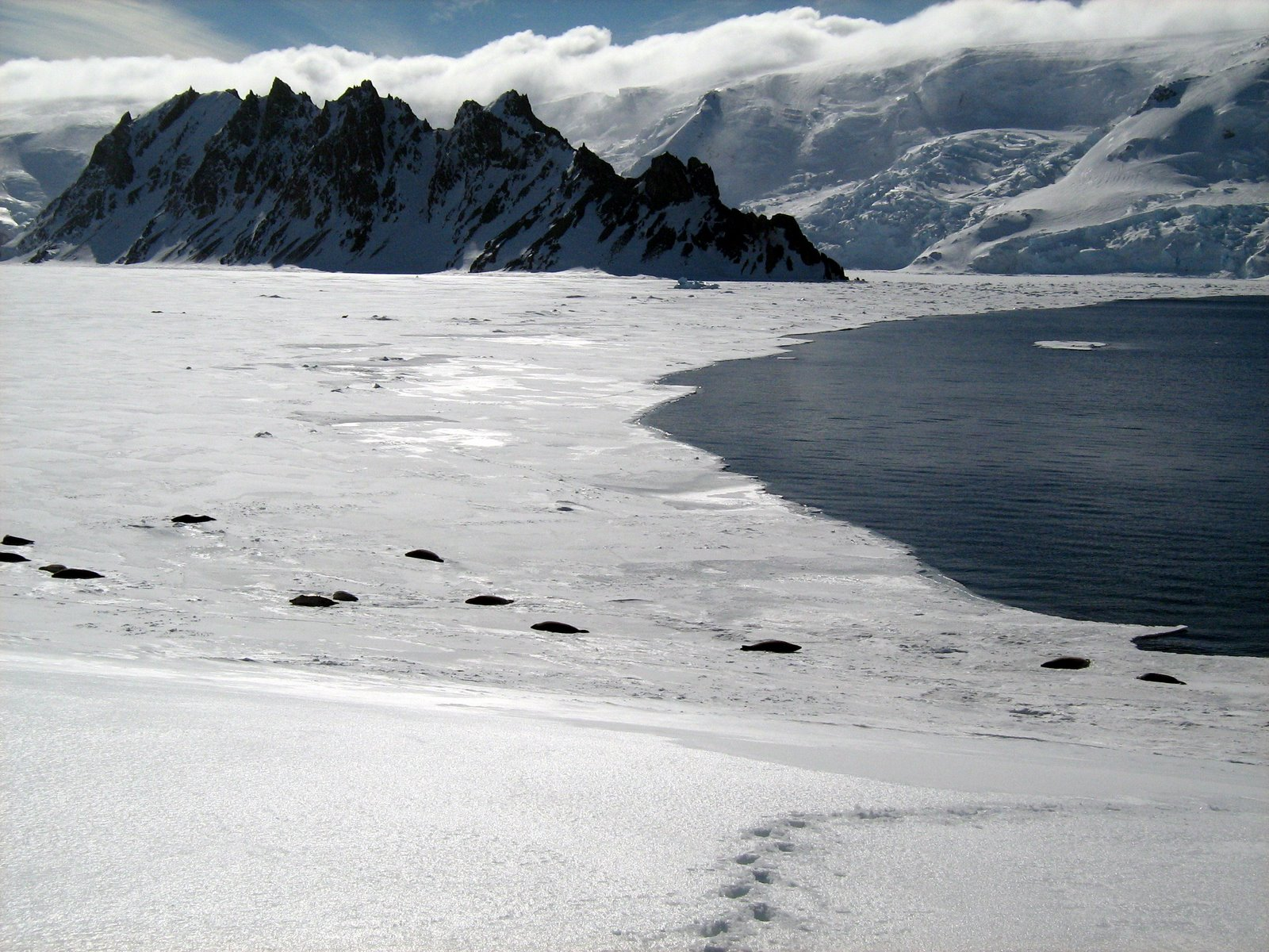 Ezcurra Inlet and Dufayel Island, King George Island